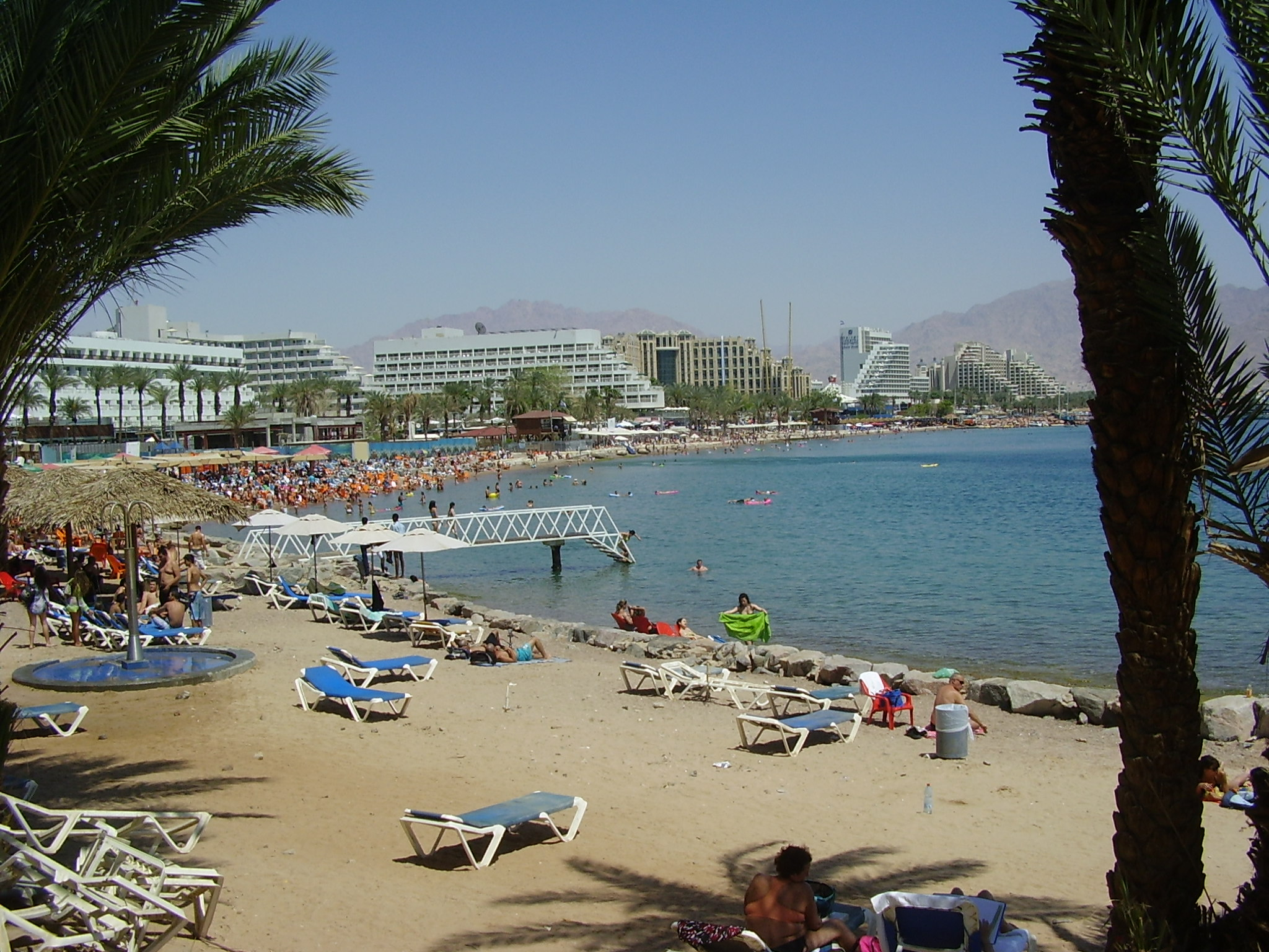 eilat beach